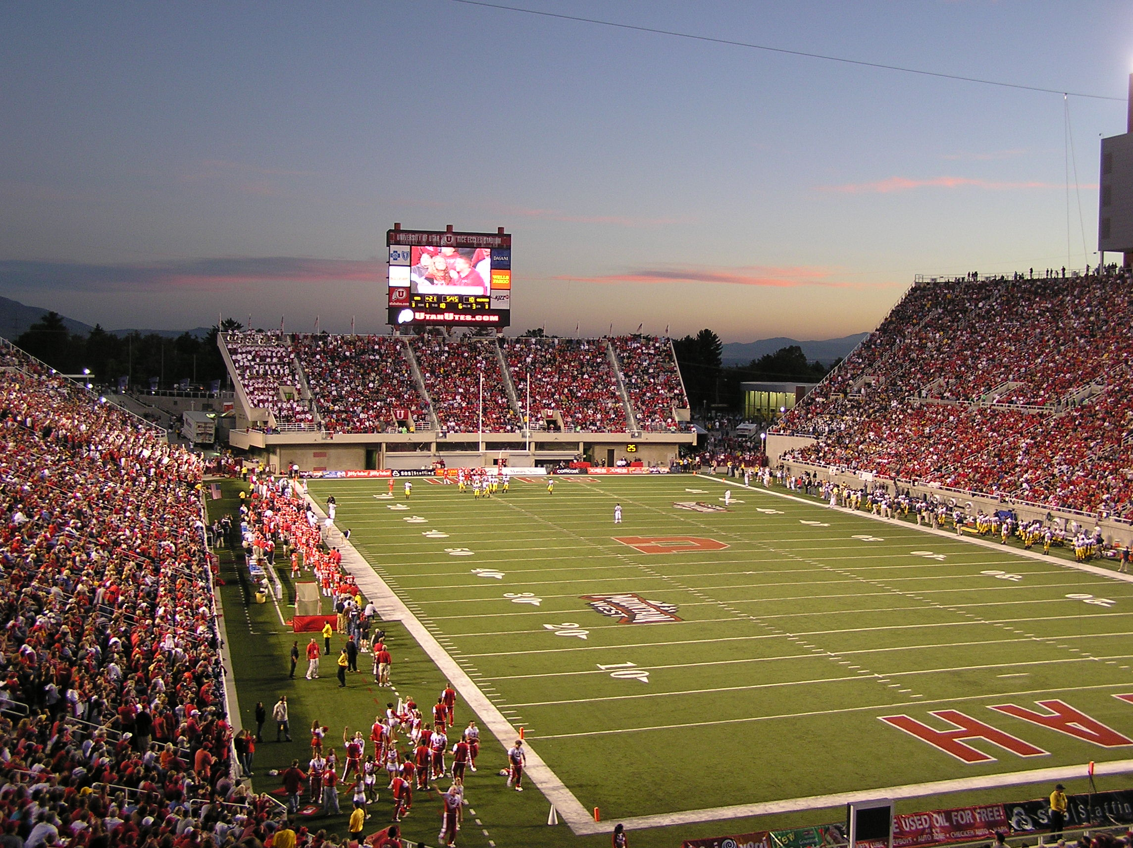 Football game at Rice Eccles stadium. Utah vs California, September 11, 2003.